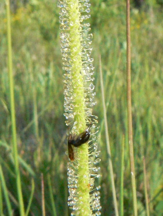 Part of leaf of Drosera filiformis var. tracyi, with captured insect, Liberty Co., Florida.